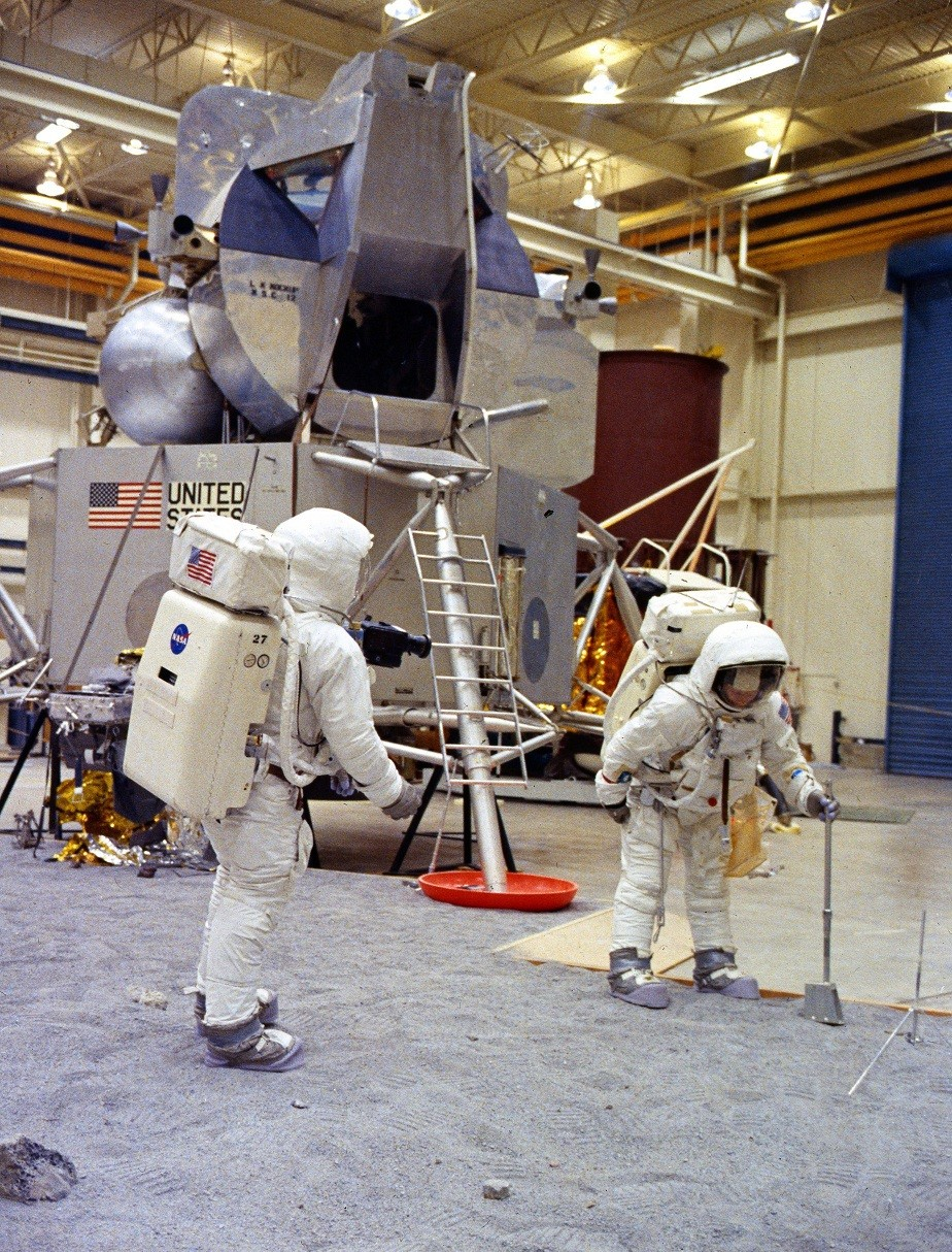 Apollo 11 Commander Neil Armstrong (left) and Lunar Module Pilot Buzz Aldrin train for the Apollo program's first manned lunar landing in Building 9 at the Manned Spacecraft Center.